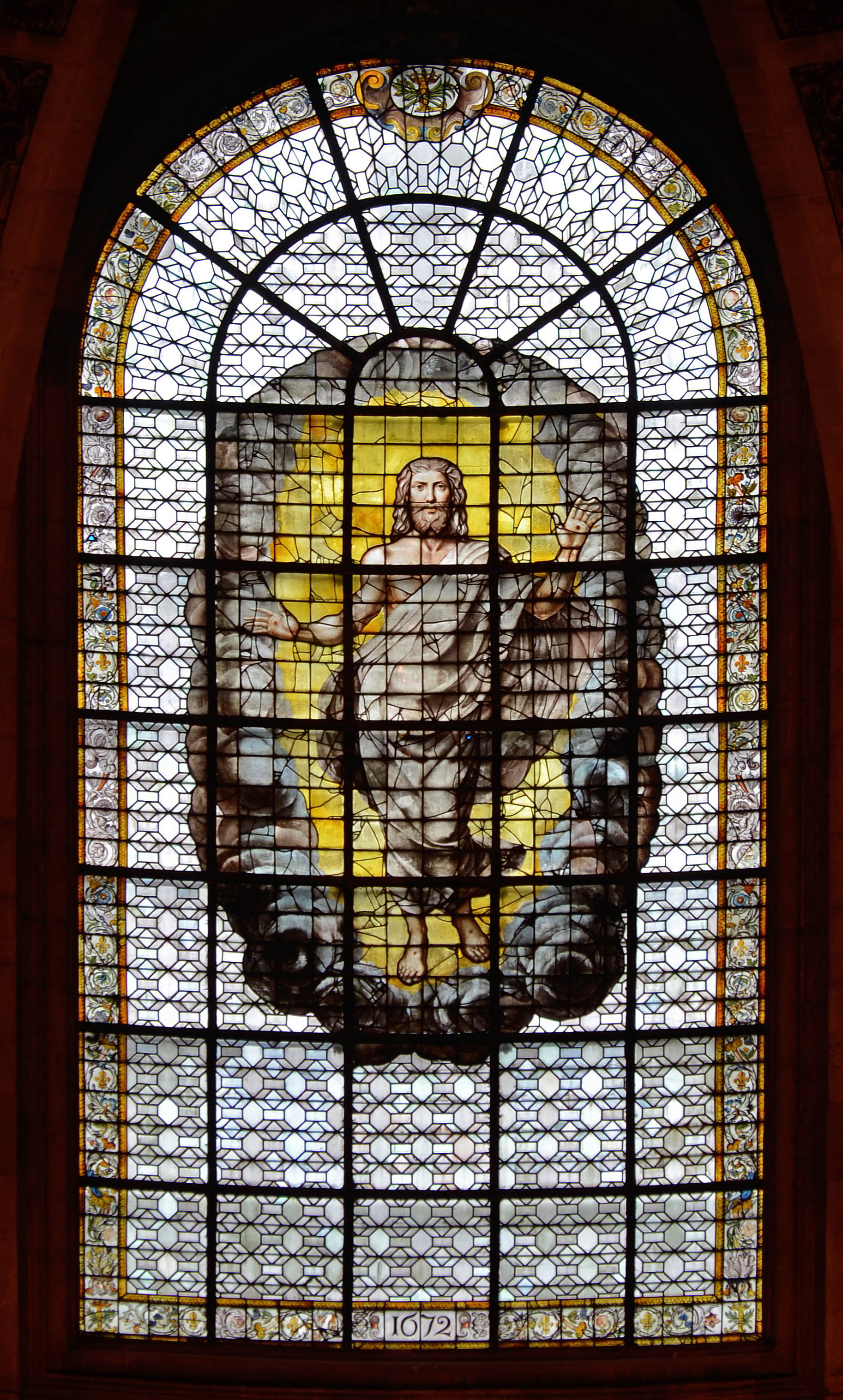 "Resurrection of Christ" - Central stained glass window of the choir in Saint-Sulpice church - Paris, France